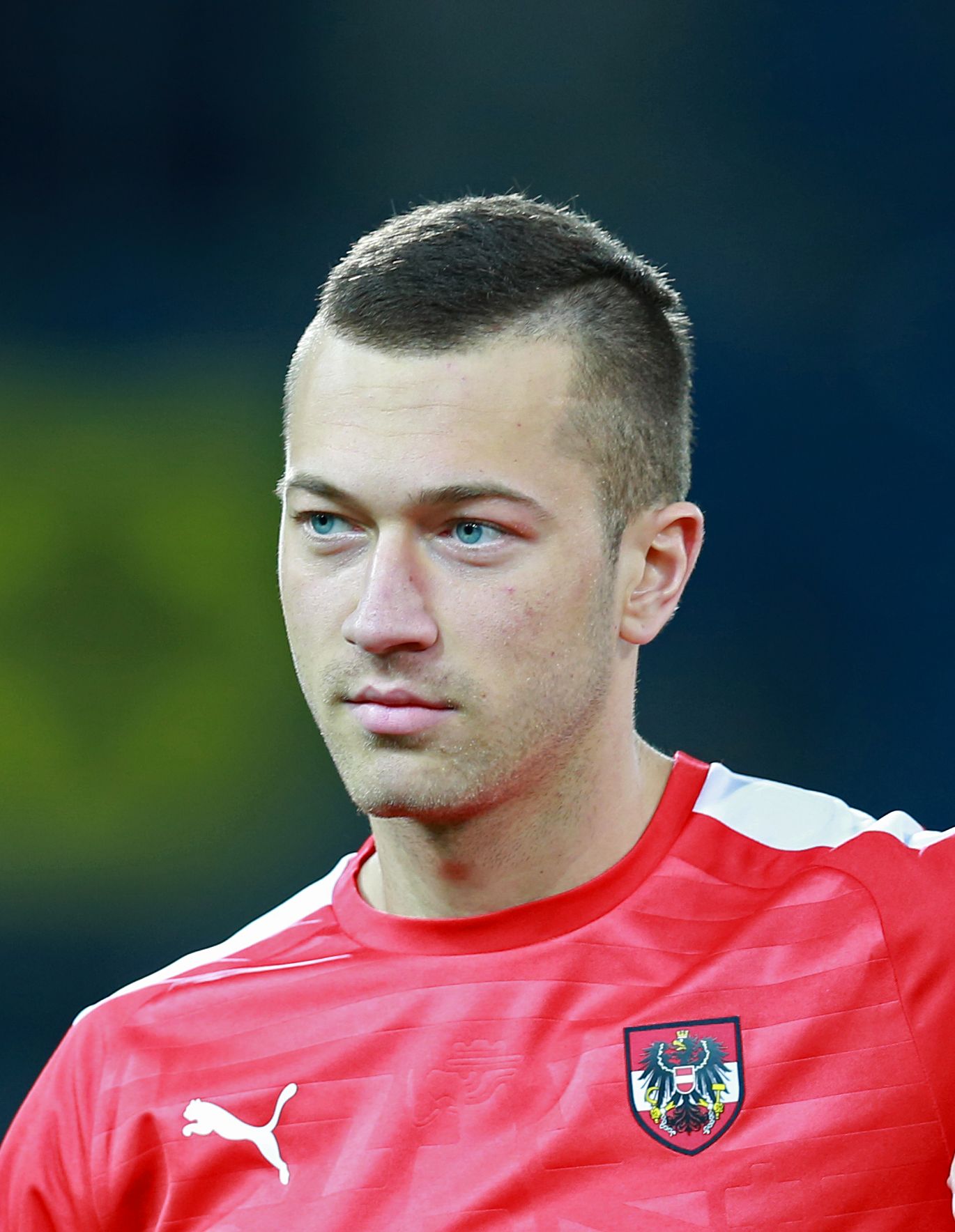 Peter Zulj at national under-21 football game Albania vs. Austria in Graz, UPC Arena, 5. March 2014